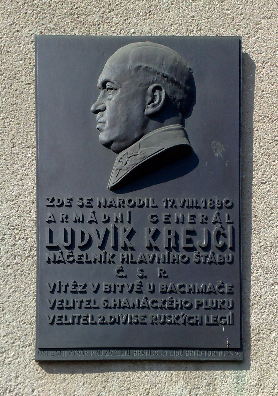 memorial of general Ludvik Krejci, birthplace Turanske nam. 31, Brno-Turany, CZ (1936-1939, 1996-present)